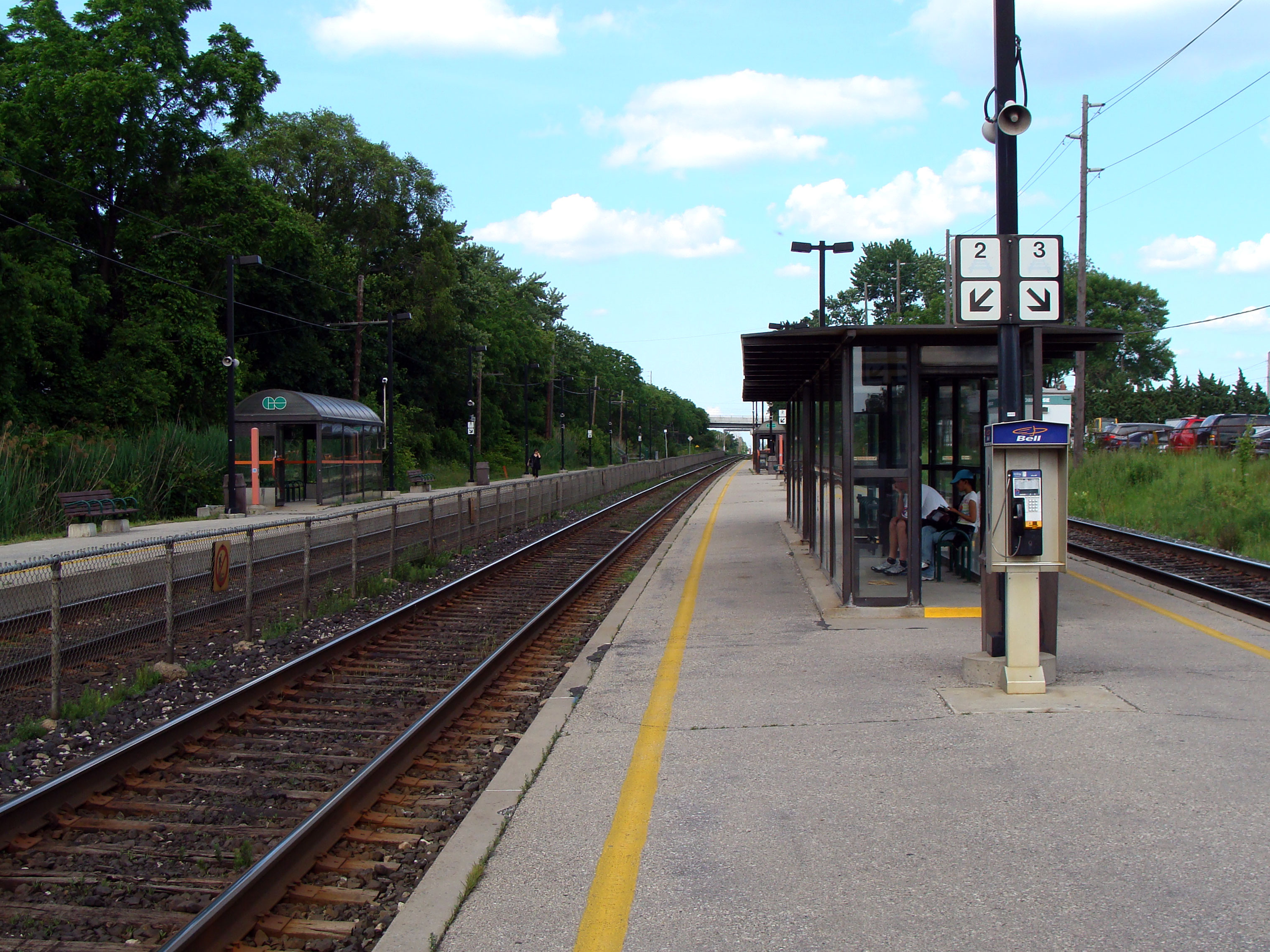 Looking east along the platforms at Long Branch GO Station